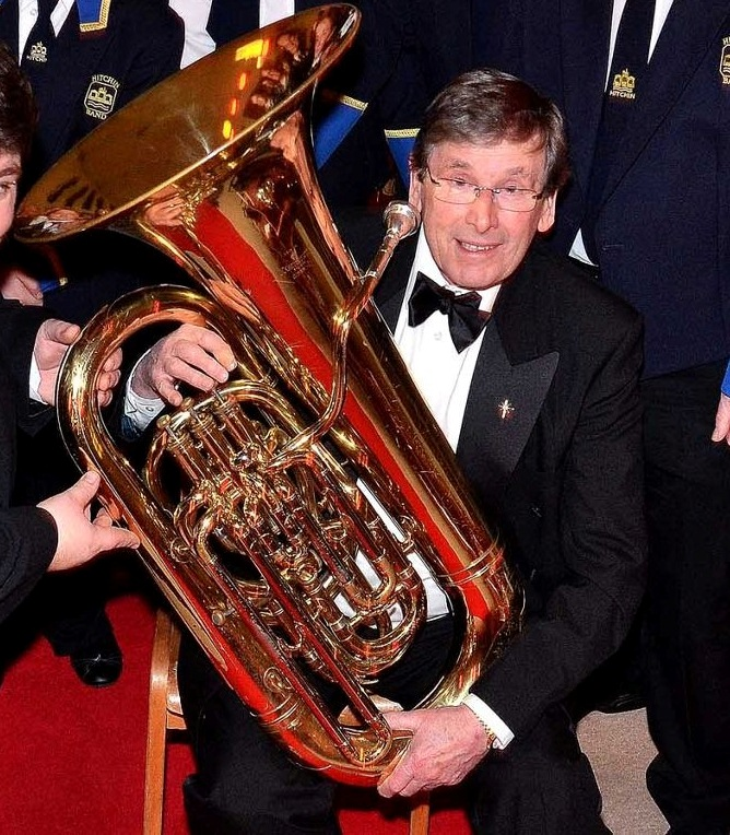 Richard Whitmore at a Hitchin Band Concert in 2011.